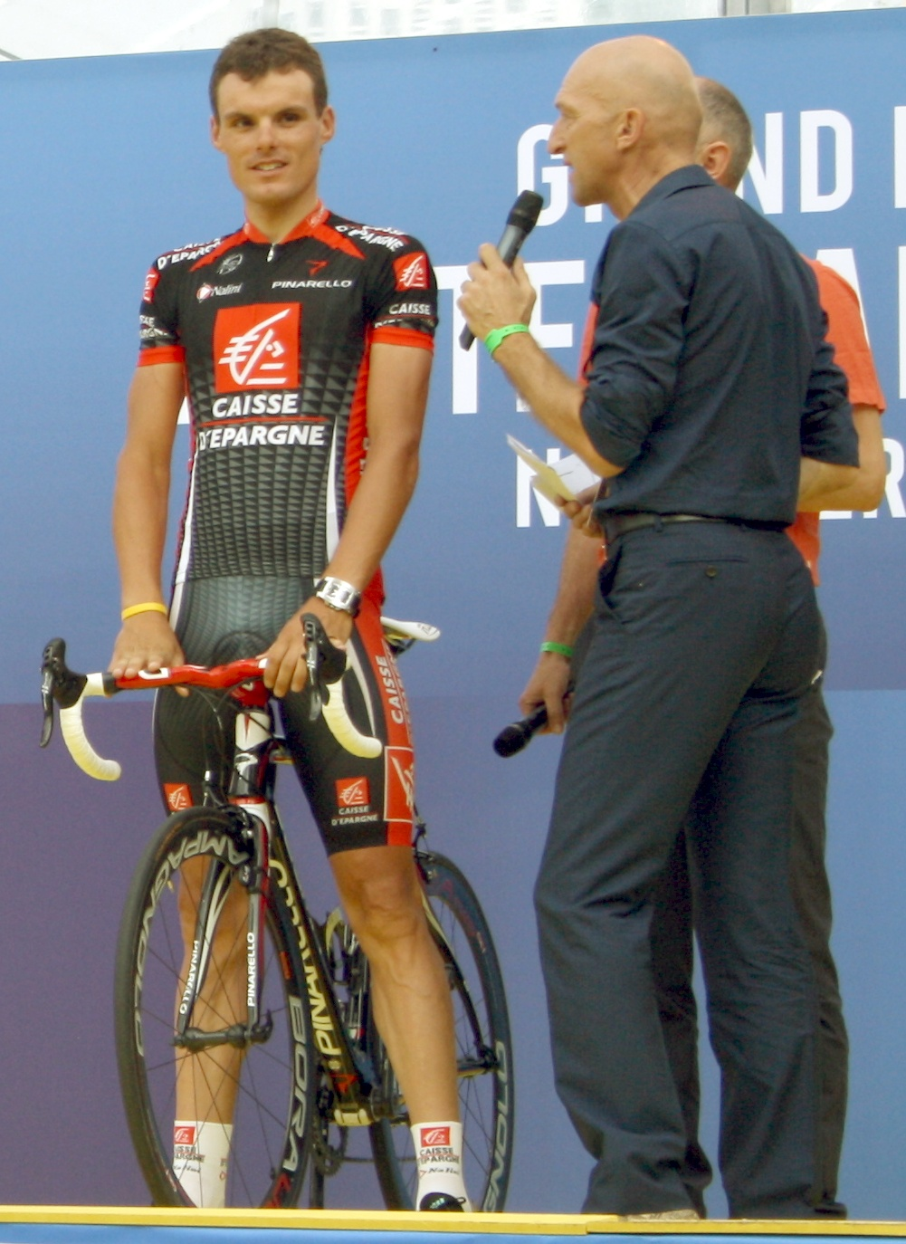 Luis León Sánchez at the team presentation of the 2010 Tour de France in Rotterdam